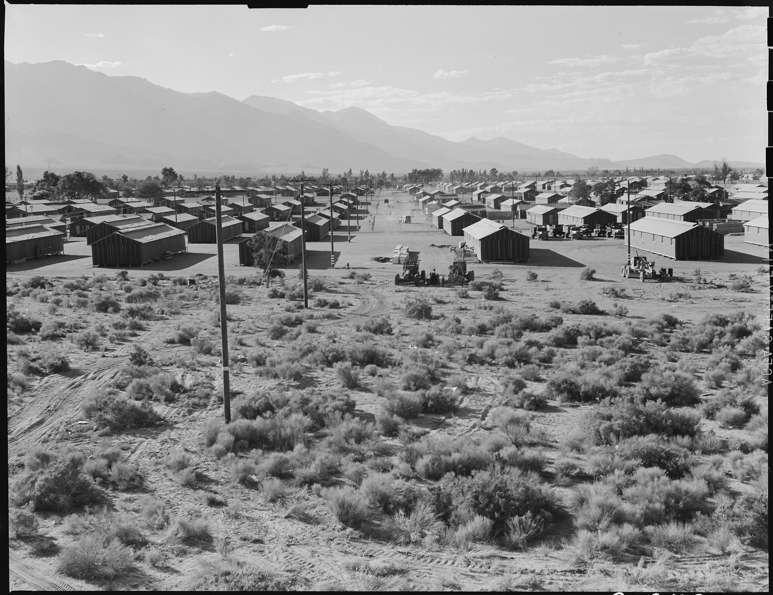 Scope and content: The full caption for this photograph reads: Manzanar Relocation Center, Manzanar, California. A view of the Manzanar Relocation center showing streets and blocks.